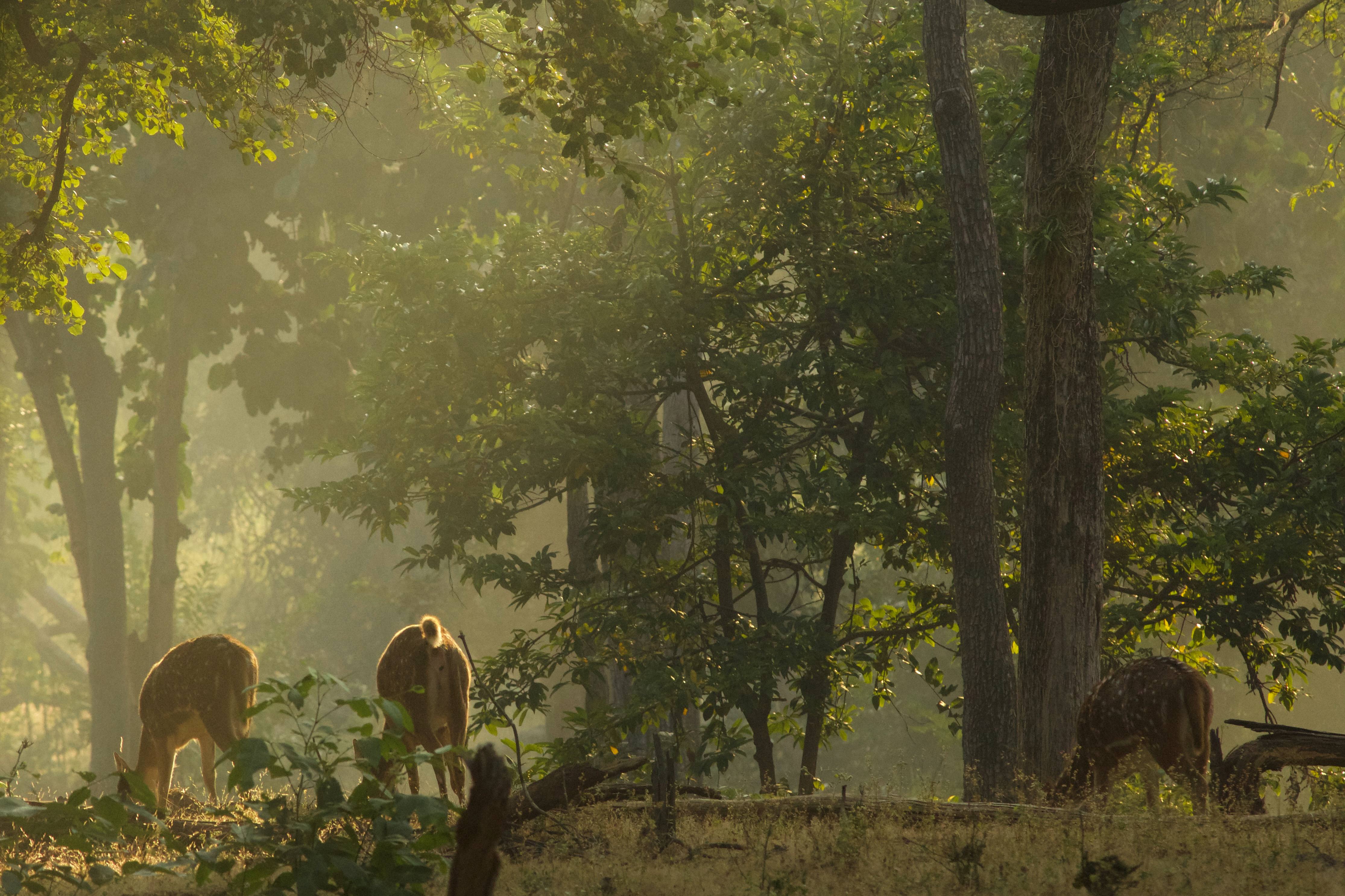 It was one of the winter mornings when we took a Jungle-Safari at Pench National Park and saw them having breakfast.